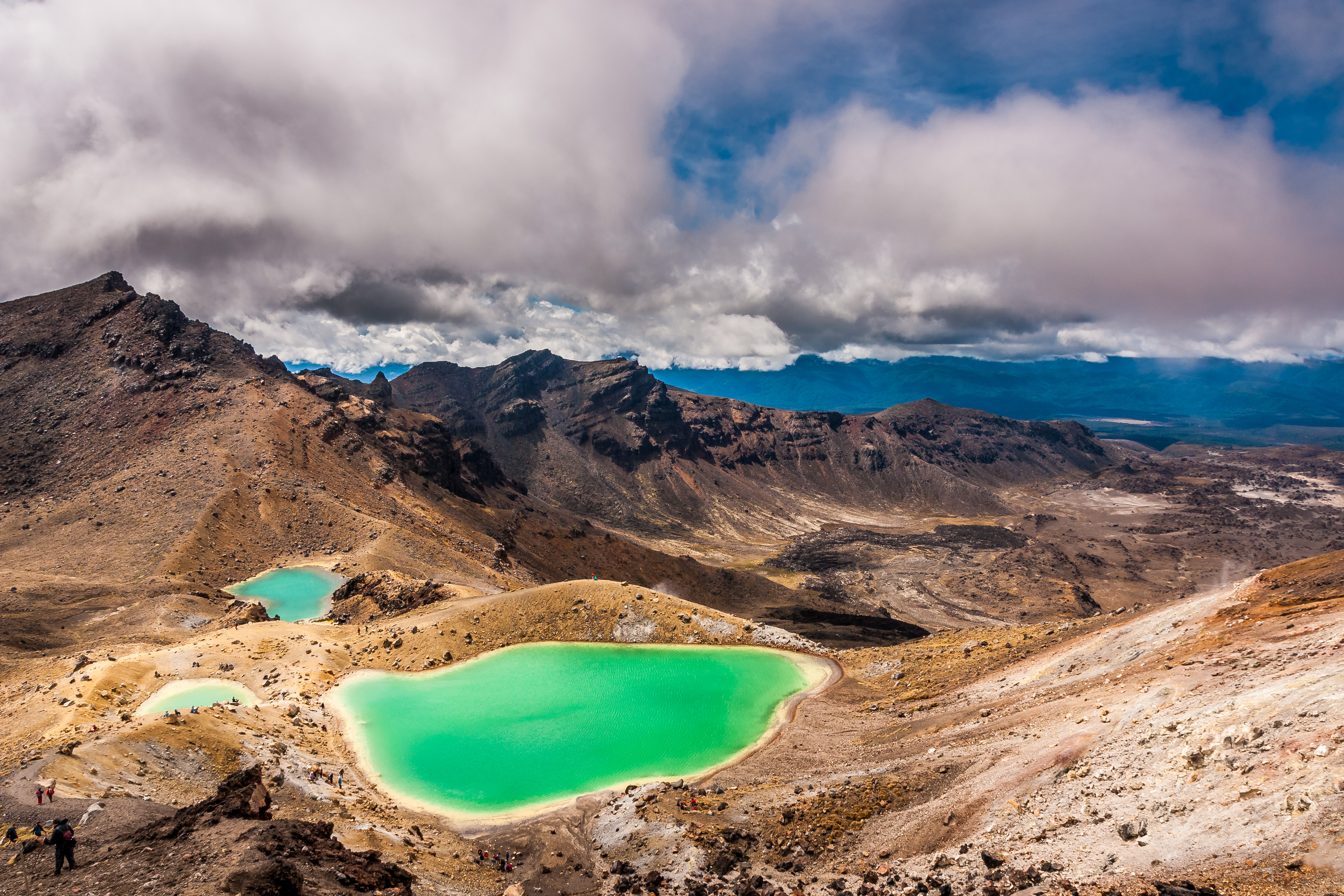 The Emerald Lakes seen from the Red Crater. This is about half way on the Tongariro Alpine Crossing, one of the most impressive walks in New Zealand.